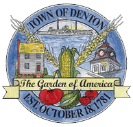 This image is a copy of the official seal of the City of Denton, Maryland, as designed and adopted by the City in 1781. As such, any copyright is expired and is therefore in the public domain.